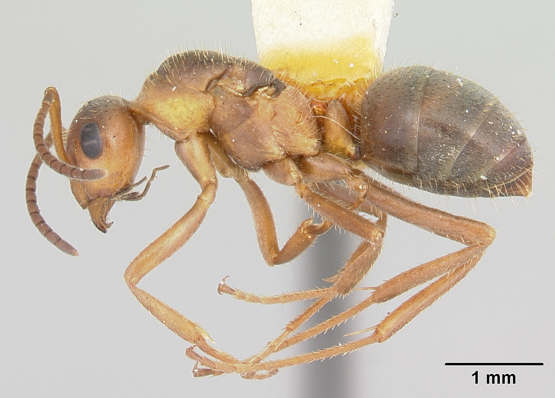 Profile view of ant Formica dirksi specimen casent0105597.